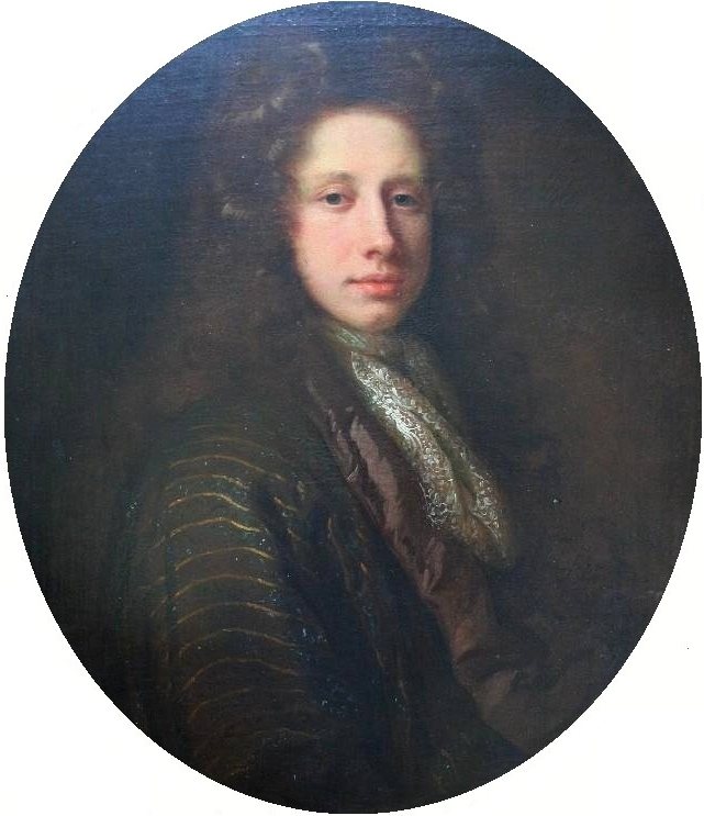 Portrait of a Gentleman, quarter length, wearing a dark green coat with striped sleeves and a lace jabot